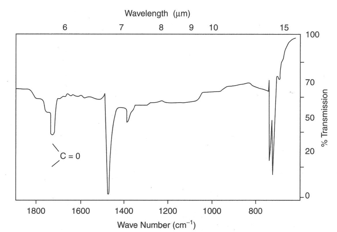 own spectrum from casebook